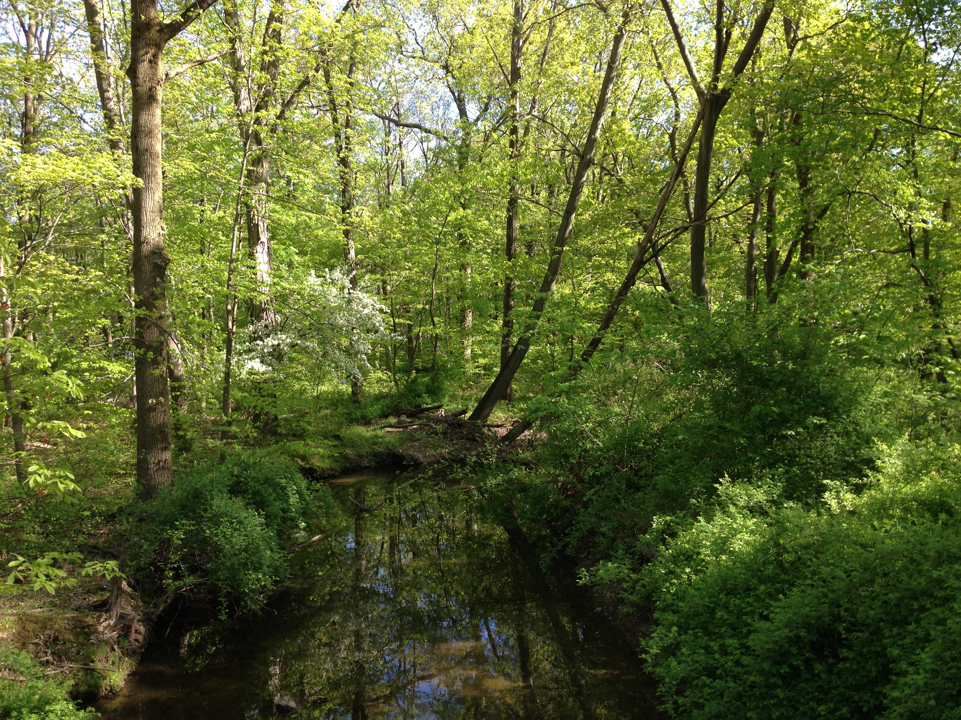 View down the West Branch Shabakunk Creek at the Rutledge Avenue Foot Bridge in Ewing, New Jersey